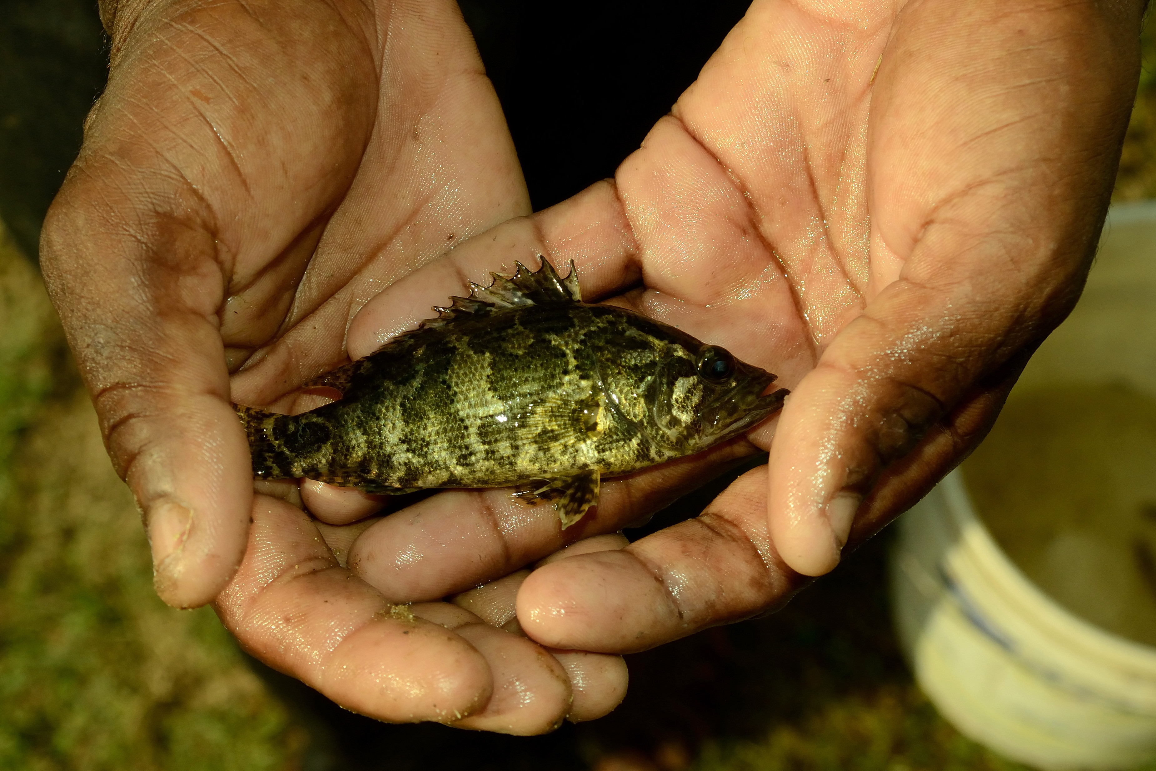 Asian leafish as captured by local fisherman in Pariej tank in Anand district.